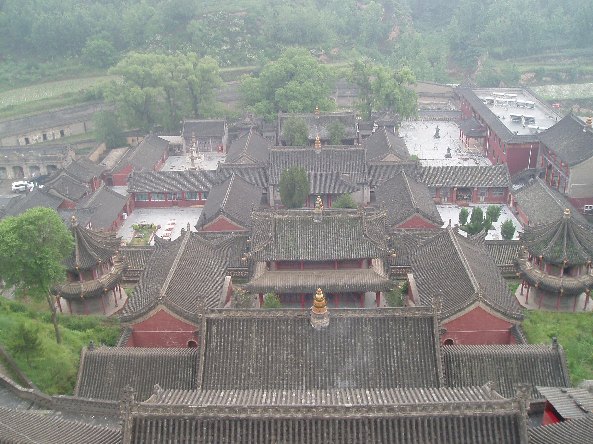 Looking down over the Zunsheng Temple from the Manjusri Hall .